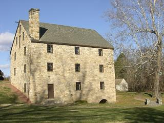 Reconstruction of George Washington's 1771 gristmill near Mount Vernon, Virginia